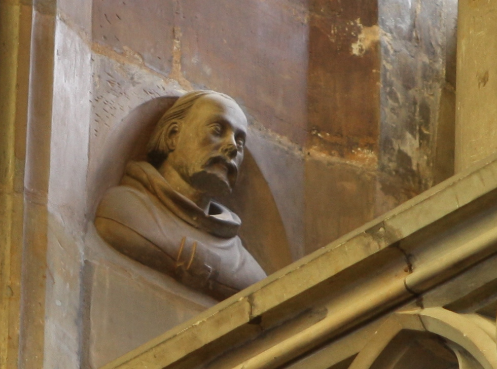 Peter Parler's bust at triforium gallery in St. Vitus cathedral in Prague